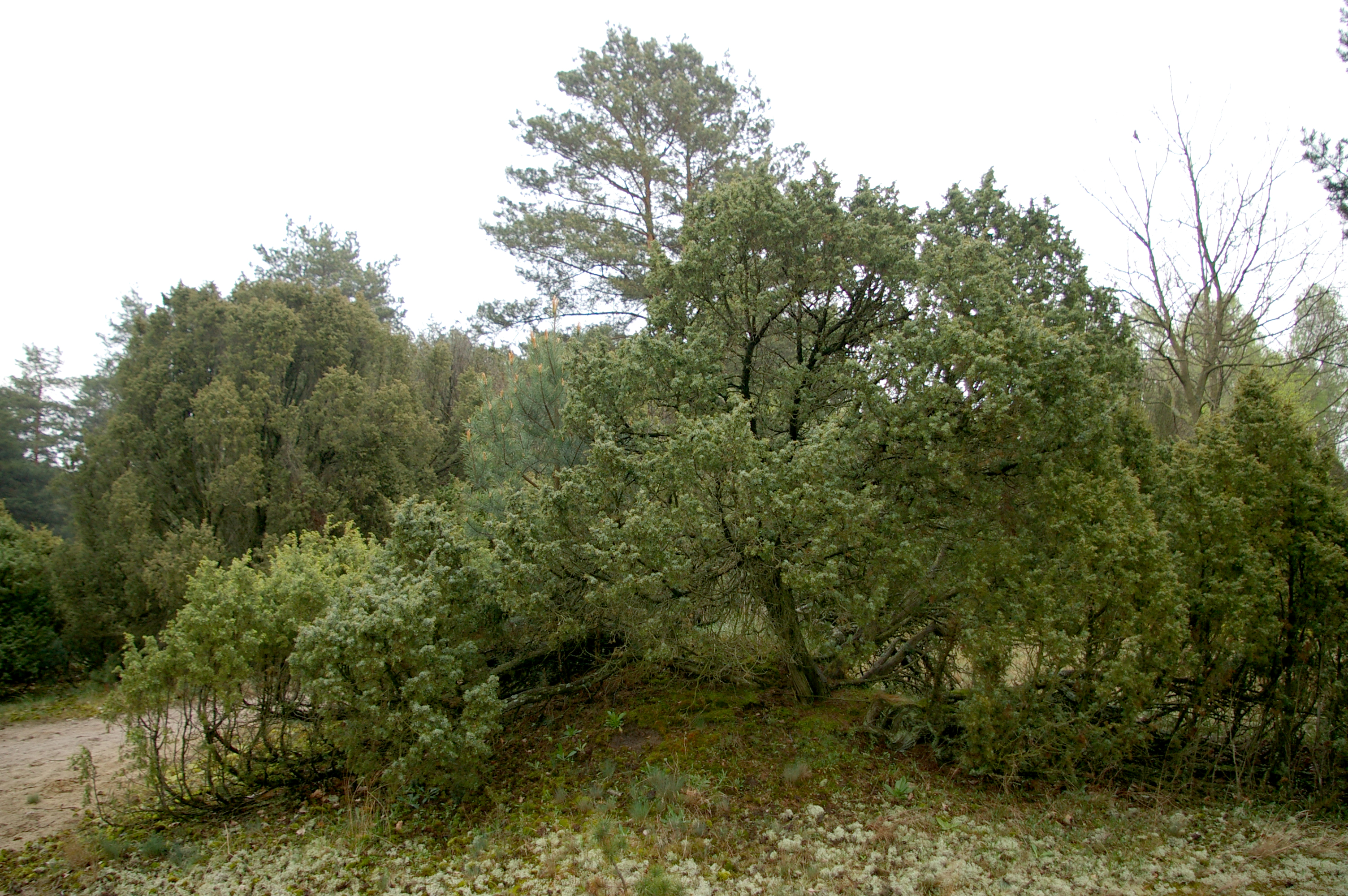 Nature reserve Ciosny